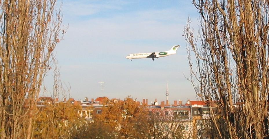 Hermannstreet in Berlin-Neukölln. Entry lane of airport Tempelhof at „Schillerkiez“. Picture taken in Berlin, Germany